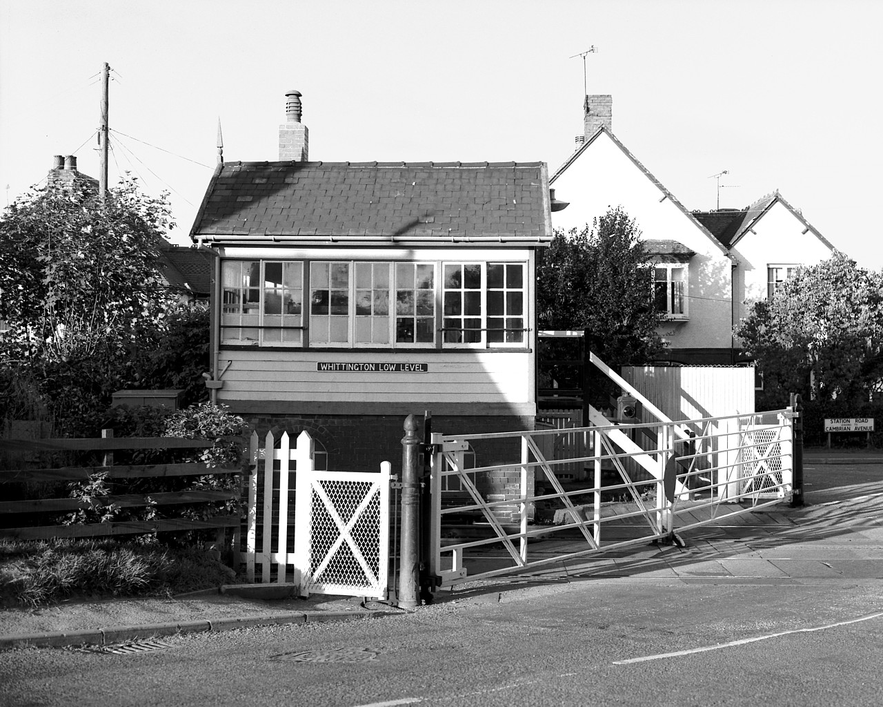 Whittington Low Level signal box located by the Up Main line alongside Whittington Road level crossing. Monday 7th September 1987 Whittington signal box was a McKenzie and Holland Type 3 design that opened in 1881 for the Great Western Railway. A replacement 20 lever Great Western Railway Stud frame installed in 1912 and at some time a small 2 lever frame was installed to control the wicket gates. On 1st July 1924 the former Cambrian Railways Whittington station was renamed Whittington High Level and the original Great Western Railway station was renamed Whittington Low Level, presumably the signal boxes were renamed at the same time. Closure came on 14th March 1992 to allow the level crossing to be converted an automatic half-barrier crossing supervised by Gobowen North signal box, which were operational from 21st June 1992. The absolute block section was extended to between Gobowen North and Haughton Sidings signal boxes The signal box carries a British Railways Western Region pressed aluminium design nameplate, and is missing a roof finial from over the door